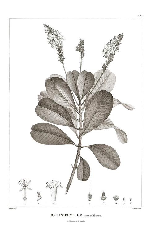 Illustration of Retiniphyllum secundiflorum 25 (also known as Nonatelia secundiflora (Bonpl.) Spreng., )